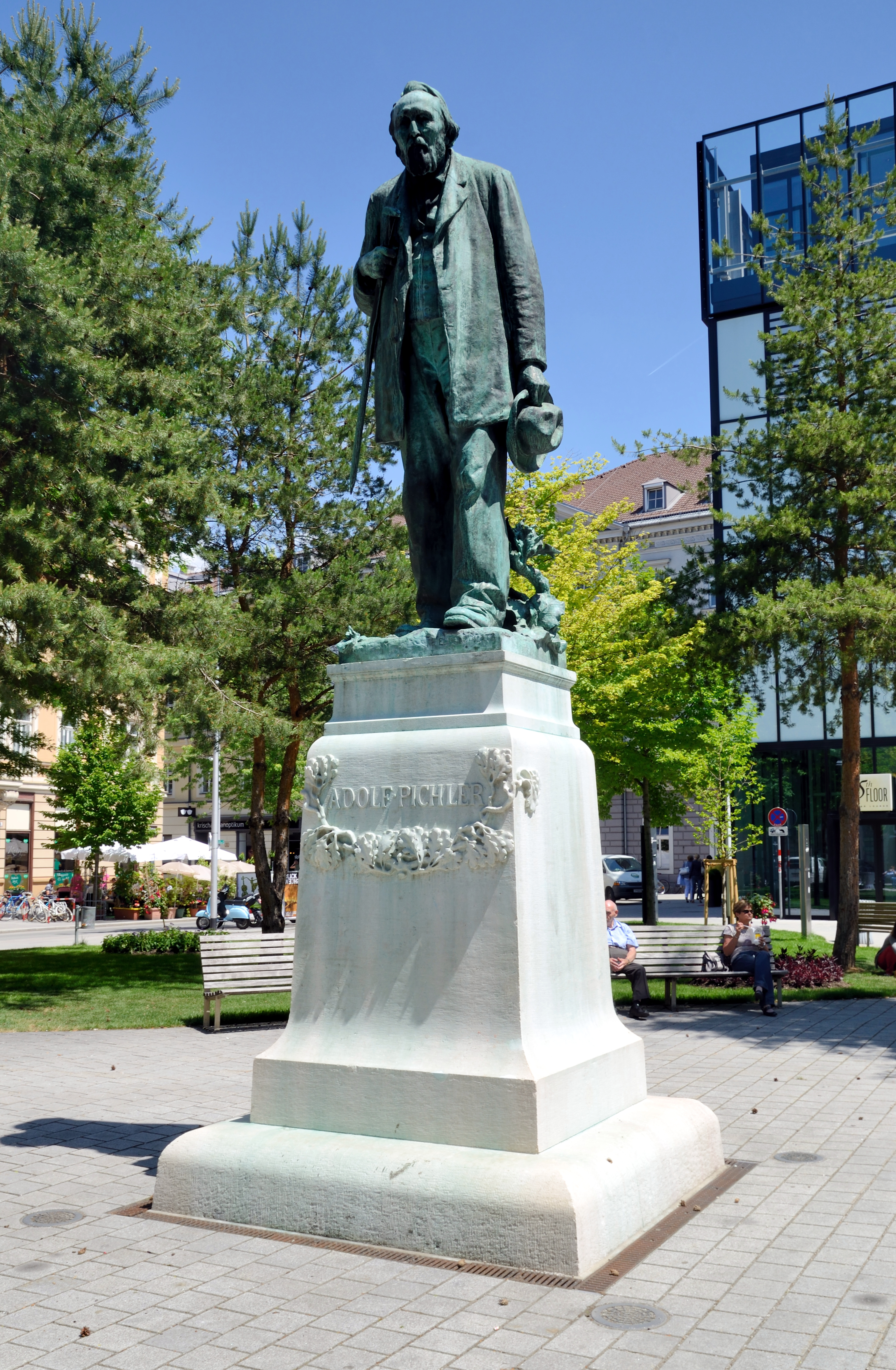 Innsbruck: Adolf Pichler monument